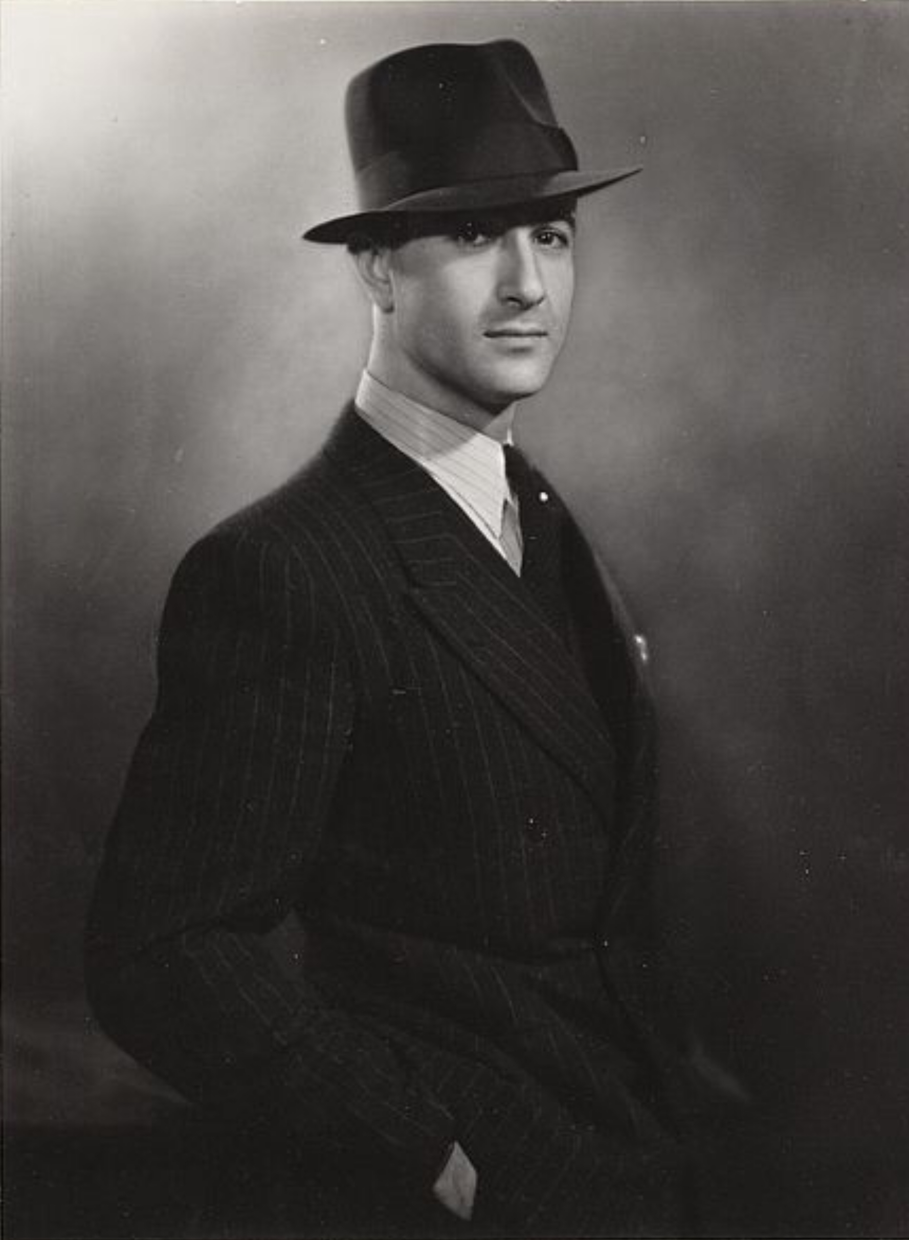 Hans Mossel (1937), jazz musician, saxofonist and bandleader of the Dutch AVRO danskorkest.